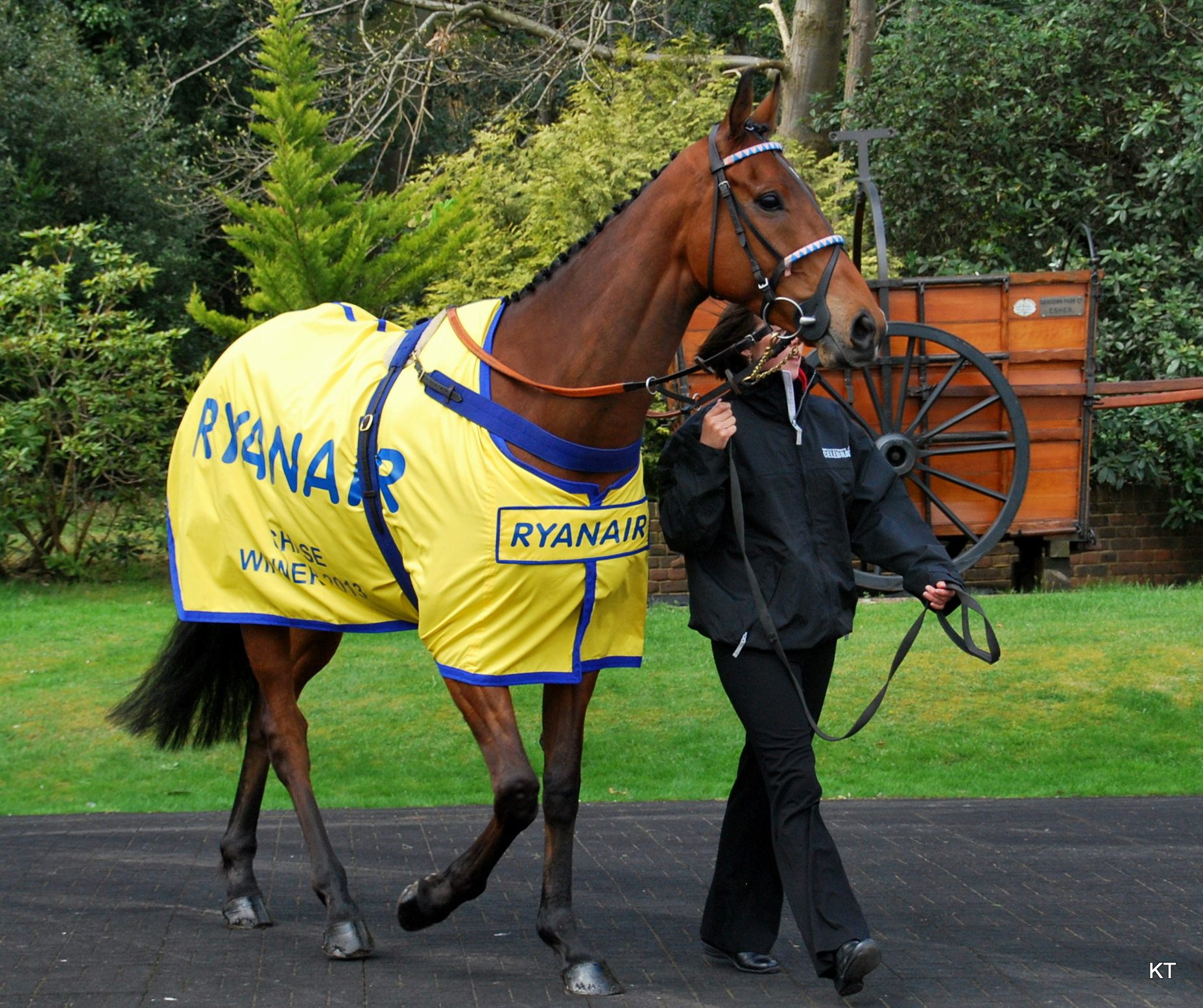 Parade of champions, Sandown, April 2013.